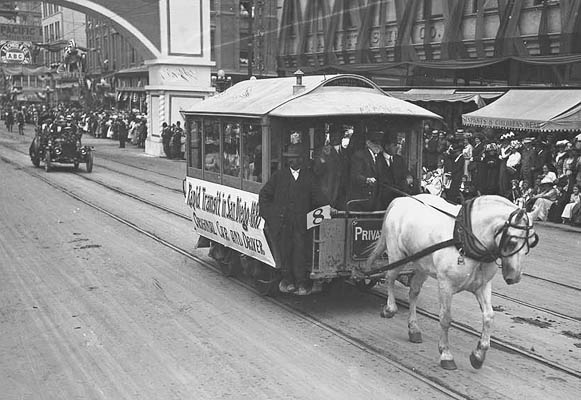 Rapid Transit in San Diego, 1886--Original Car and Driver Panama-California Exposition Ground-breaking parade, 1911.